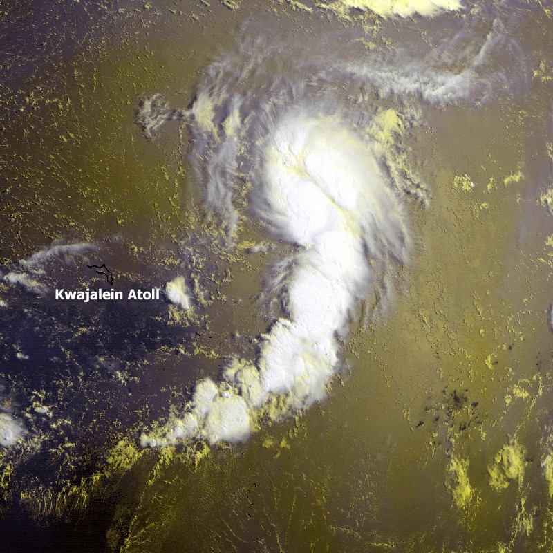 Tropical Storm Chanchu (12W) formed and was now in the vicinity of the Marshal Islands northeast of Kwajalein Atoll. Chanchu was located near 11.1N 175.3E at 18:00 UTC moving in a north-northwest direction at 8 knots. Maximum sustained winds were estimated at 35 knots, gusts to 45 knots.